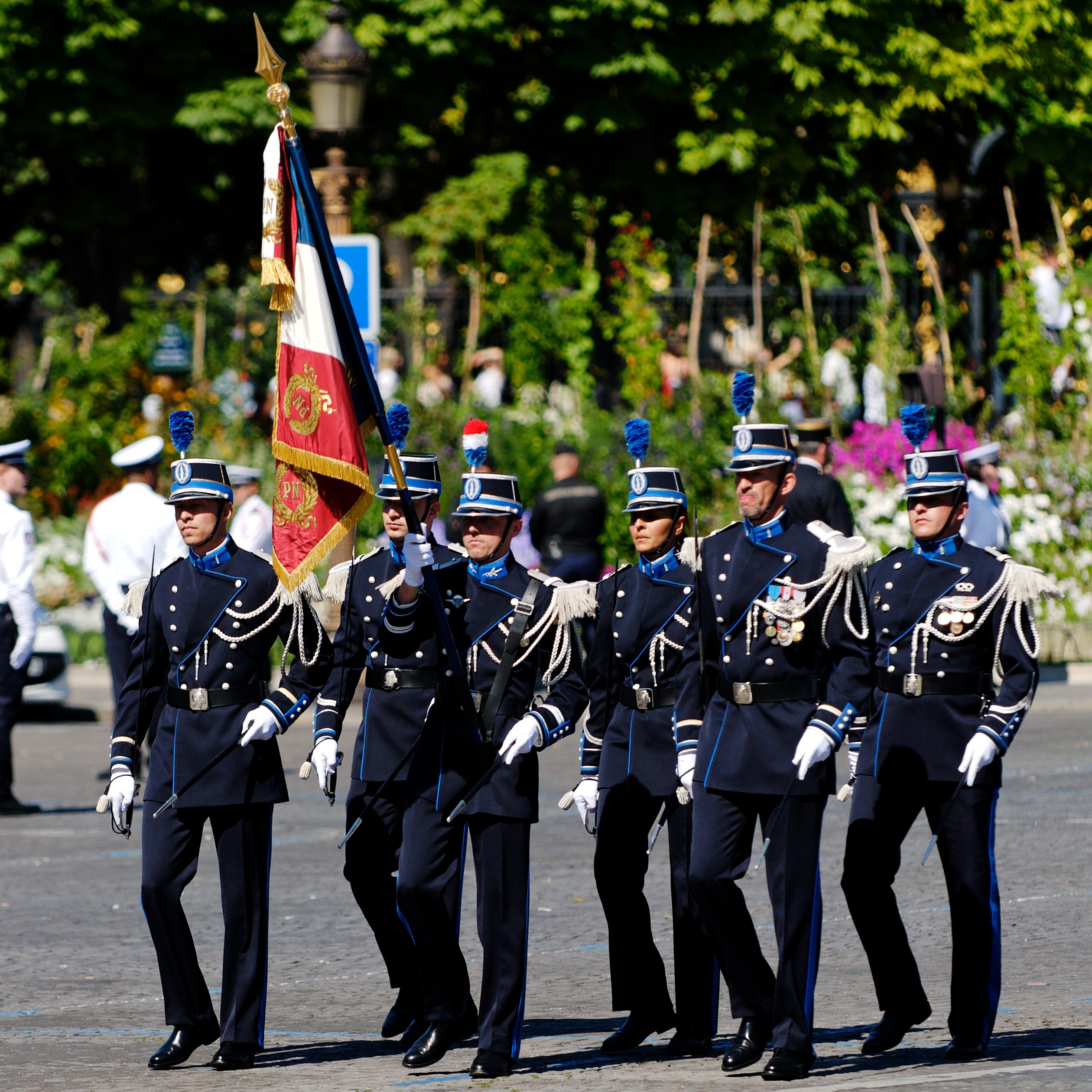 Flag of the French National Police and the Security Service of the Interior Minister (SSMI), Bastille Day 2008 military parade on the Champs-Élysées, Paris.